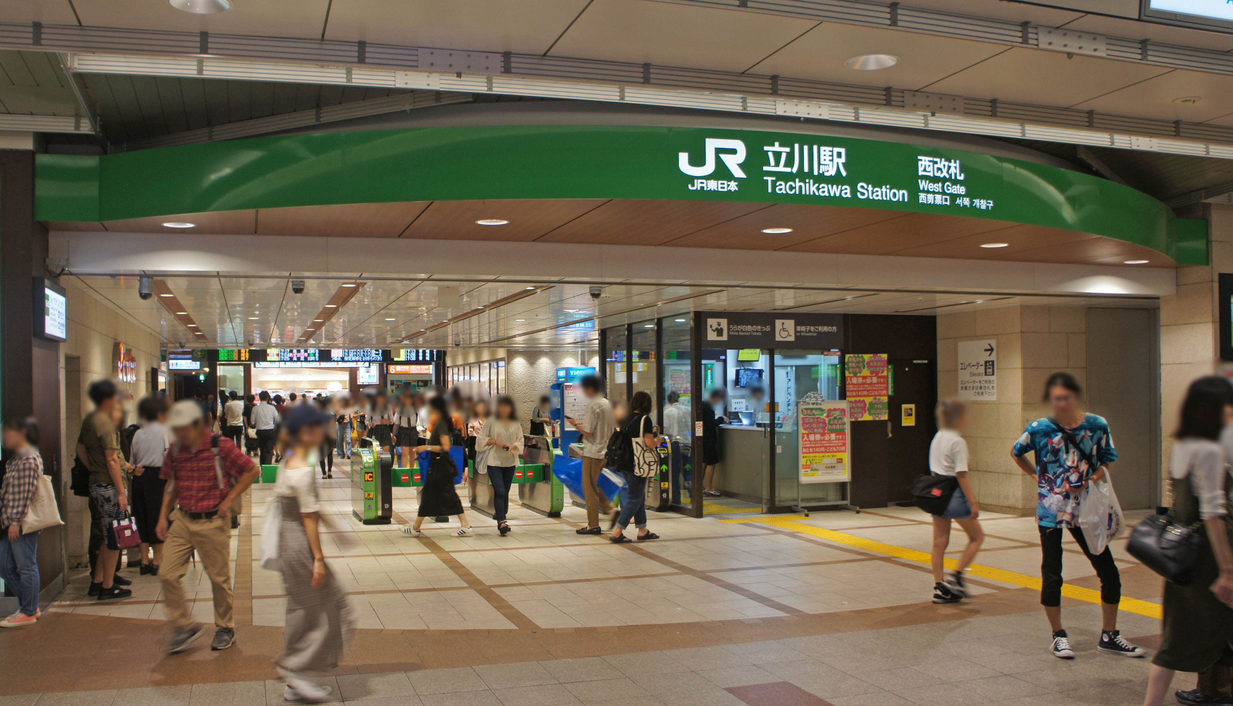 West Gates of JR Tachikawa Station